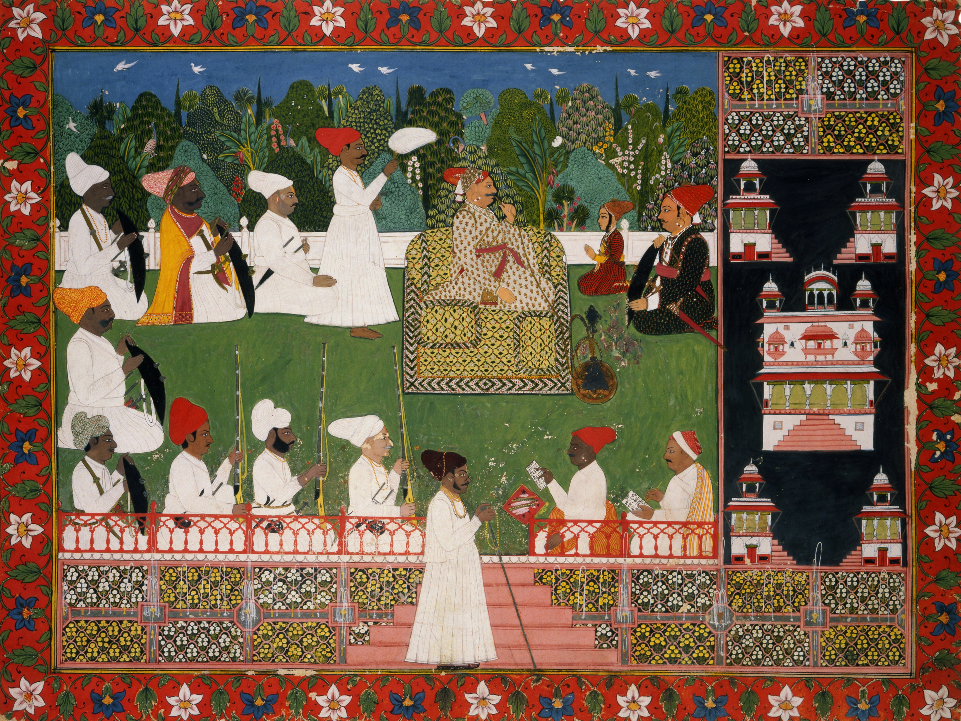 Maharaja Ajit Singh of Jodhpur, 1740-50, The David Collection